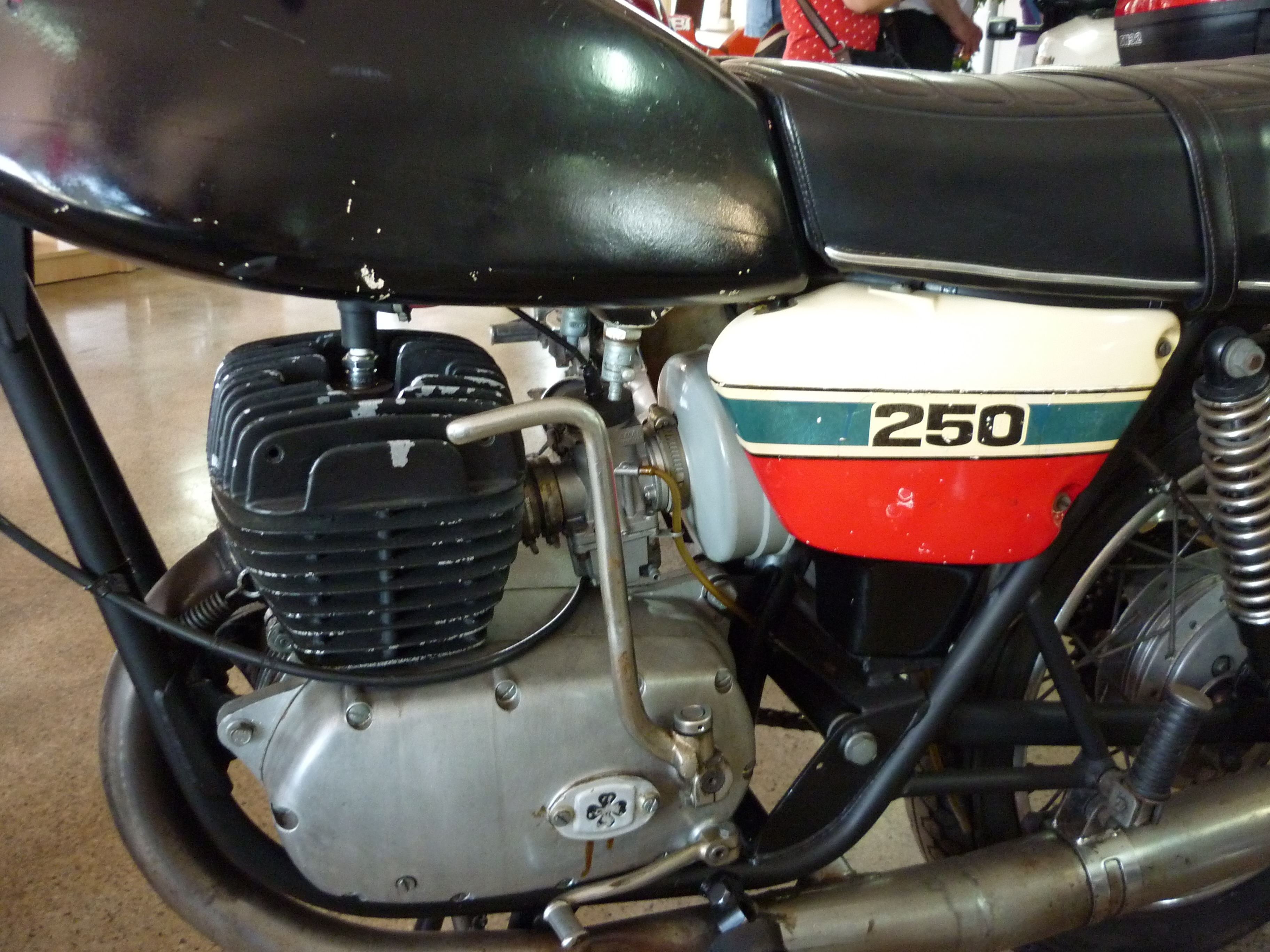 OSSA T 250cc 1975 (engine view). Its tank was originally white, red and blue as well as the filter protection.Isern Motorcycle Museum, Mollet del Vallès (Catalonia).